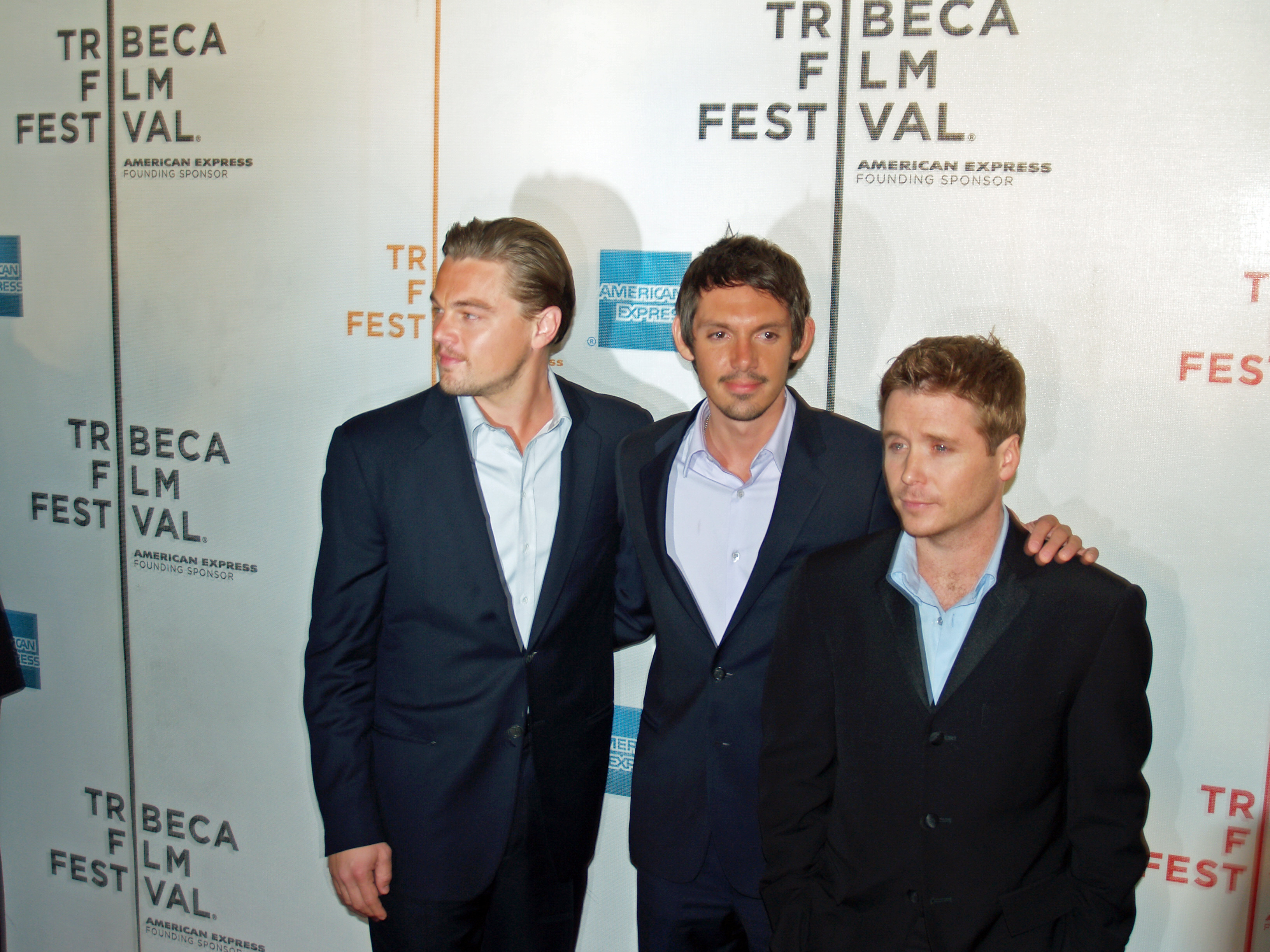 Leonardo DiCaprio, Lukas Haas and Kevin Connoly by David Shankbone